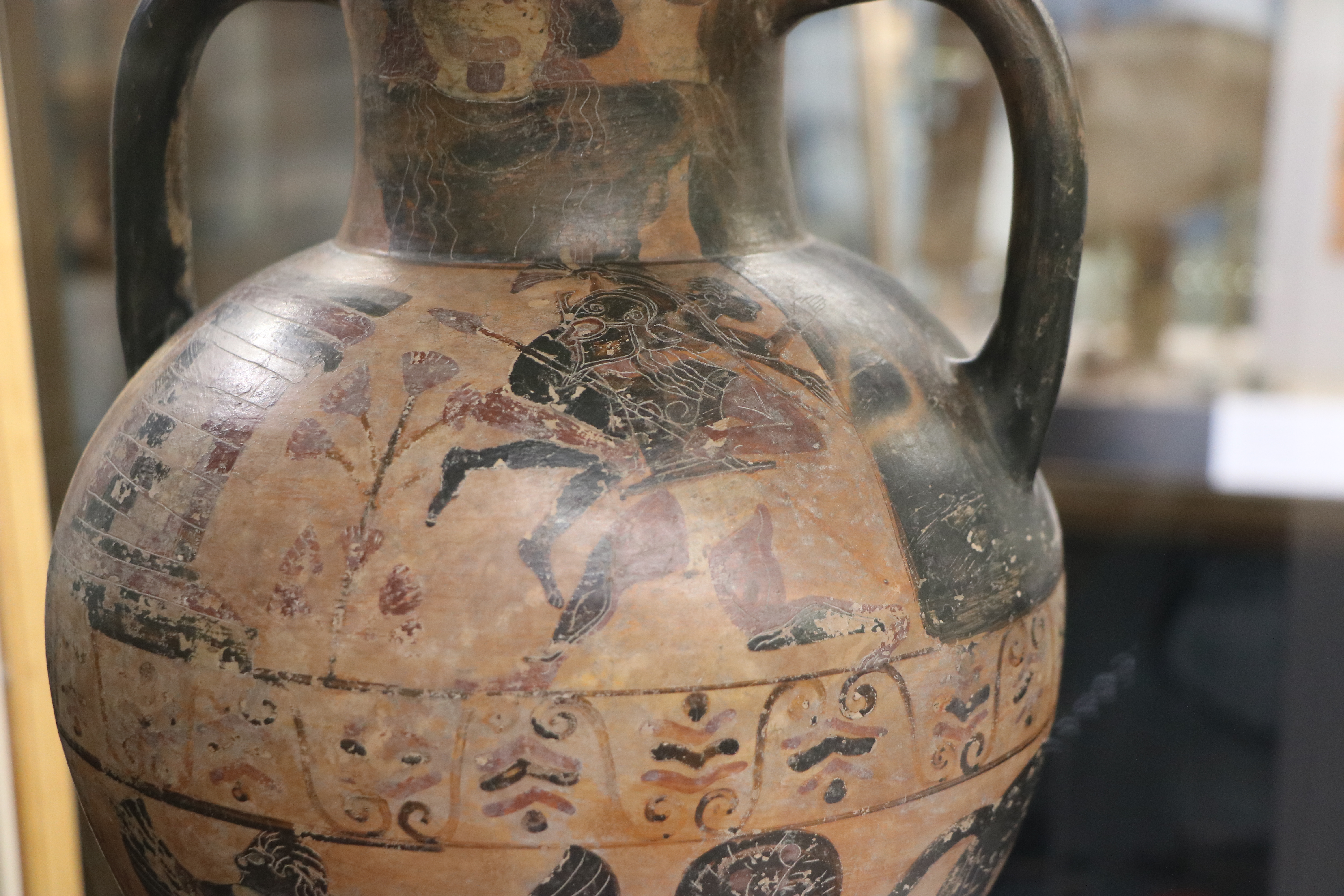 The Ure Museum's Etruscan amphora showing Troilos; detail of Achilles carrying Troilos